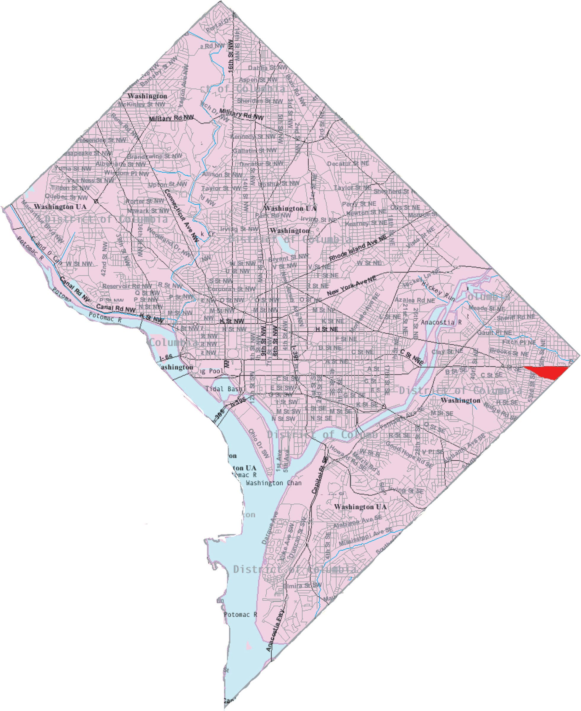 This image is a modified version of a self-generated reference map from the U.S. Census Bureau's American Factfinder at by Wikipedia user Msclguru.